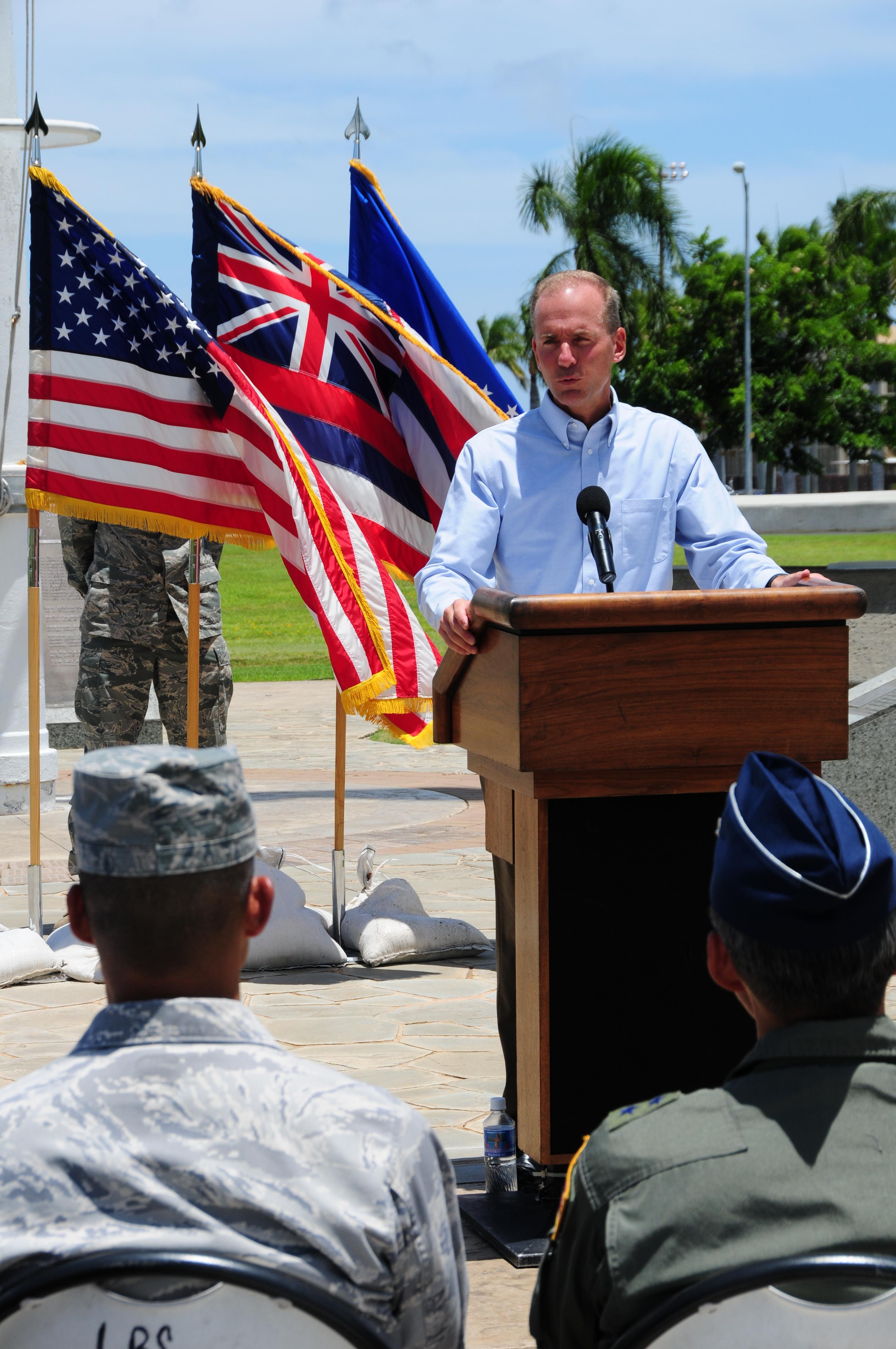 Mr. Dennis Muilenburg, President and Executive Officer of Boeing Defense, Space & Security